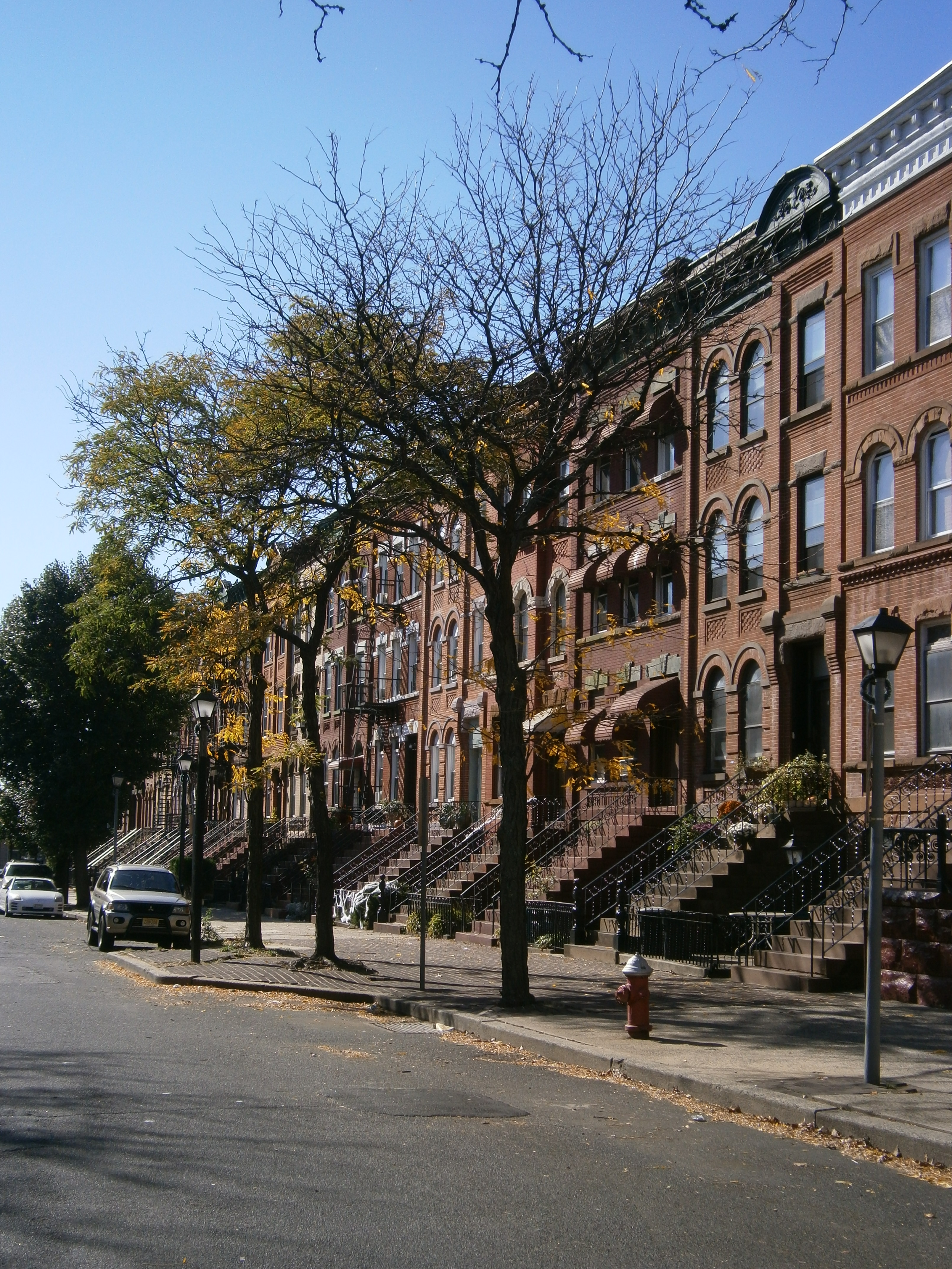 MadsionStreet in Jackson Hill/The Hub, JerseyCity